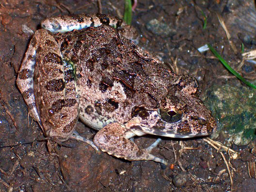 Fejervarya cancrivora, from Darmaga, Bogor, West Java